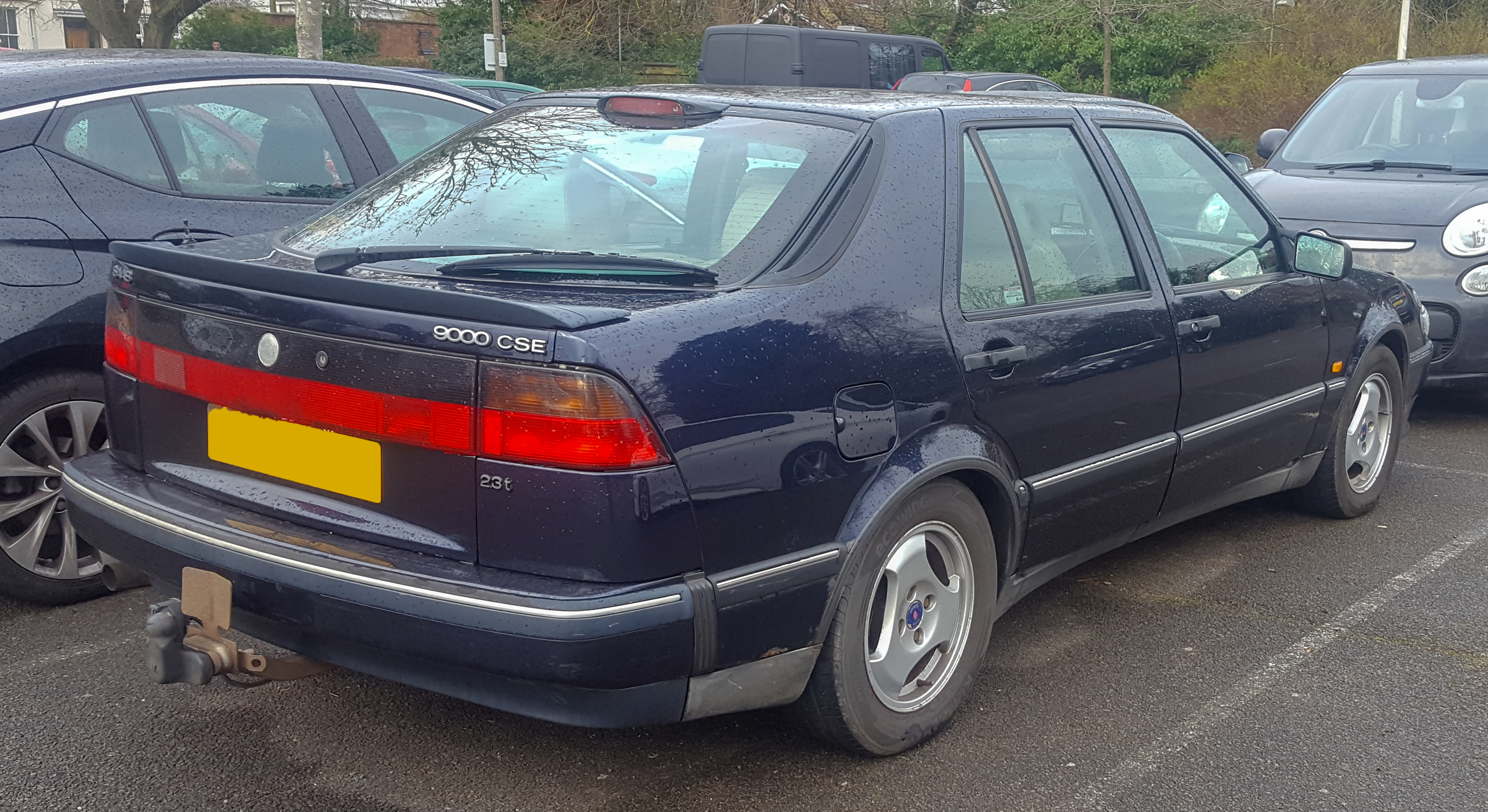 1998 Saab 9000 CSE Turbo 2.3 Rear Taken in Leamington Spa